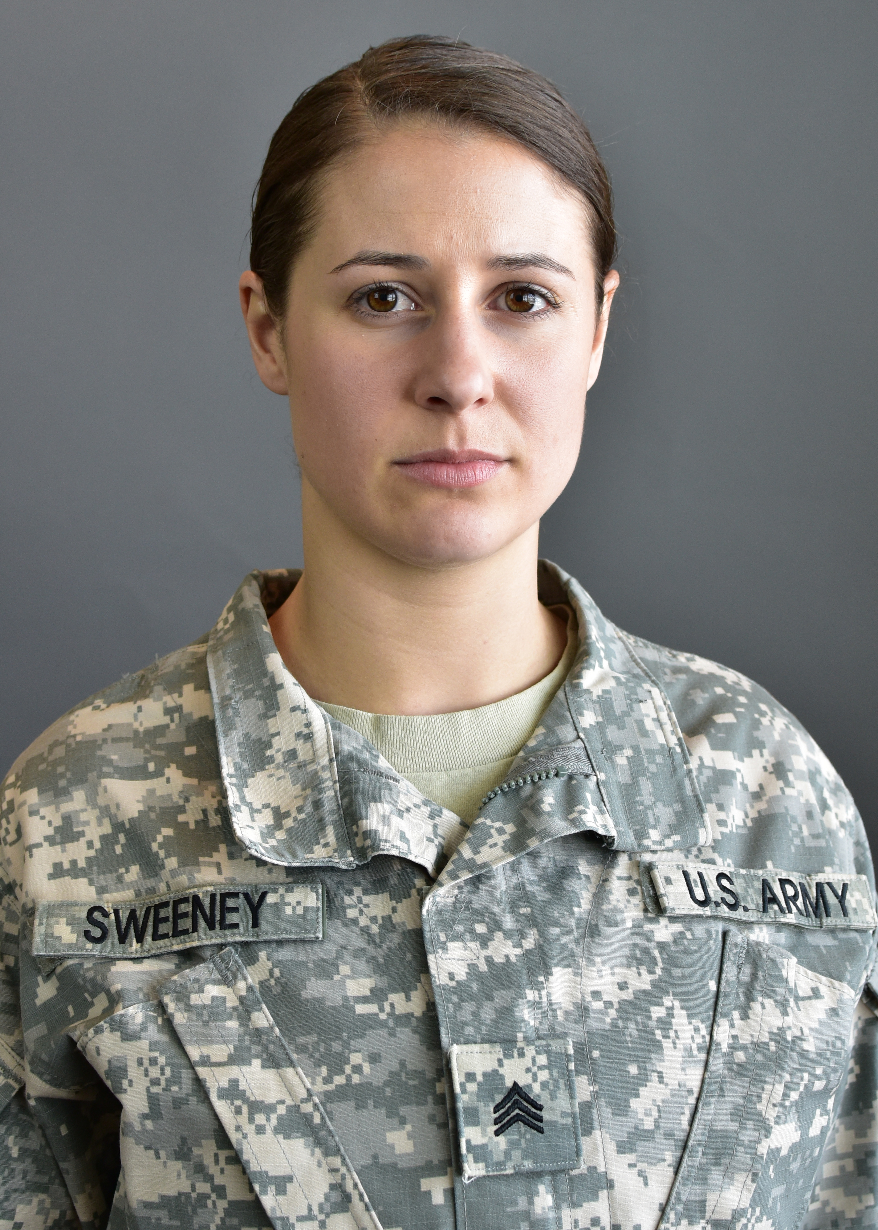 SGT Emily Sweeney